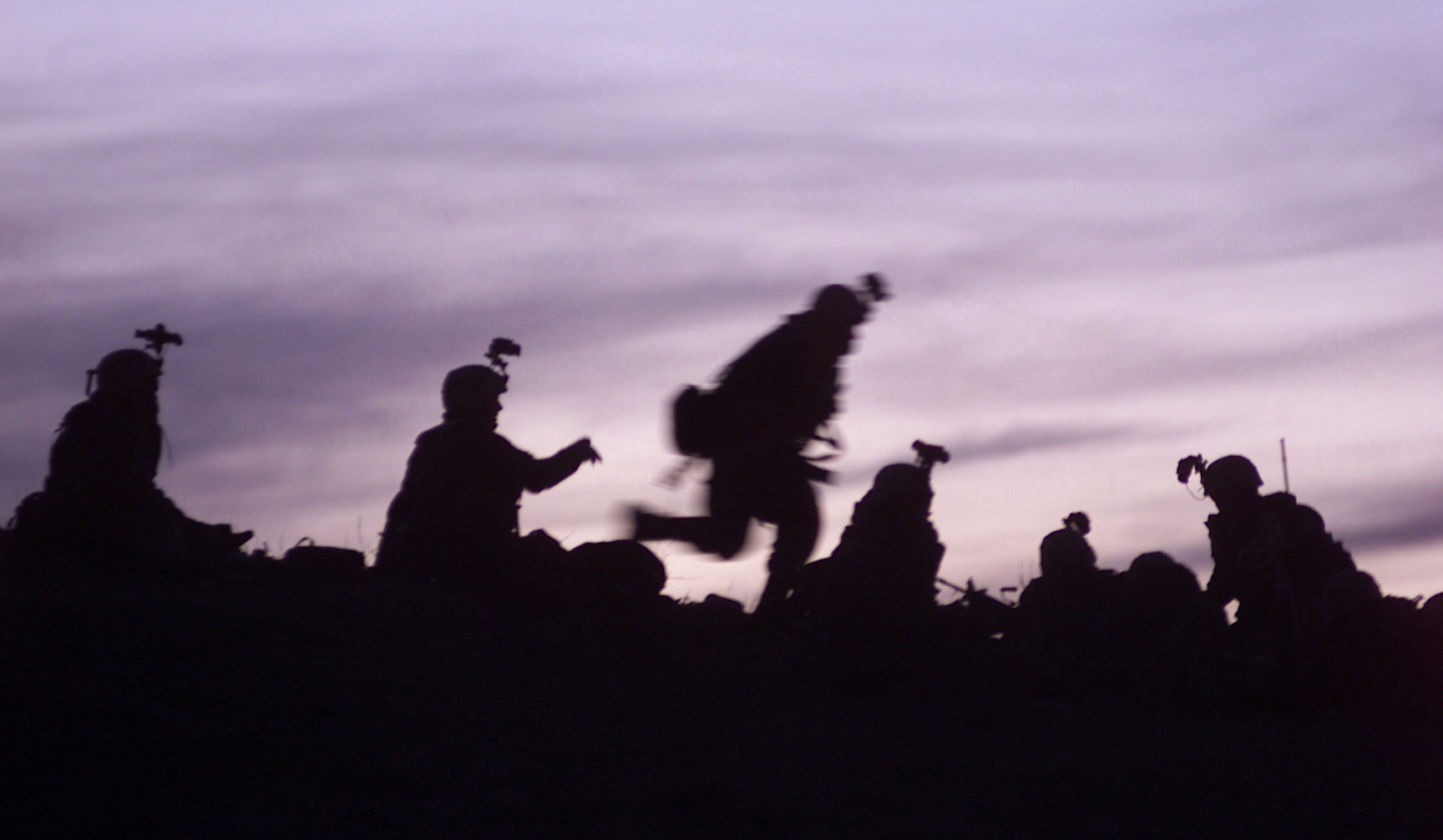 Soldiers from the 10th Mountain Division (Light Infantry), participating in the Combined Joint Task Force Mountain's Operation Anaconda, prepare to dig into fighting positions after a day of reacting to enemy fire. Operation Anaconda is part of Operation Enduring Freedom. (U.S. Army photo/Spc. David Marck Jr.)